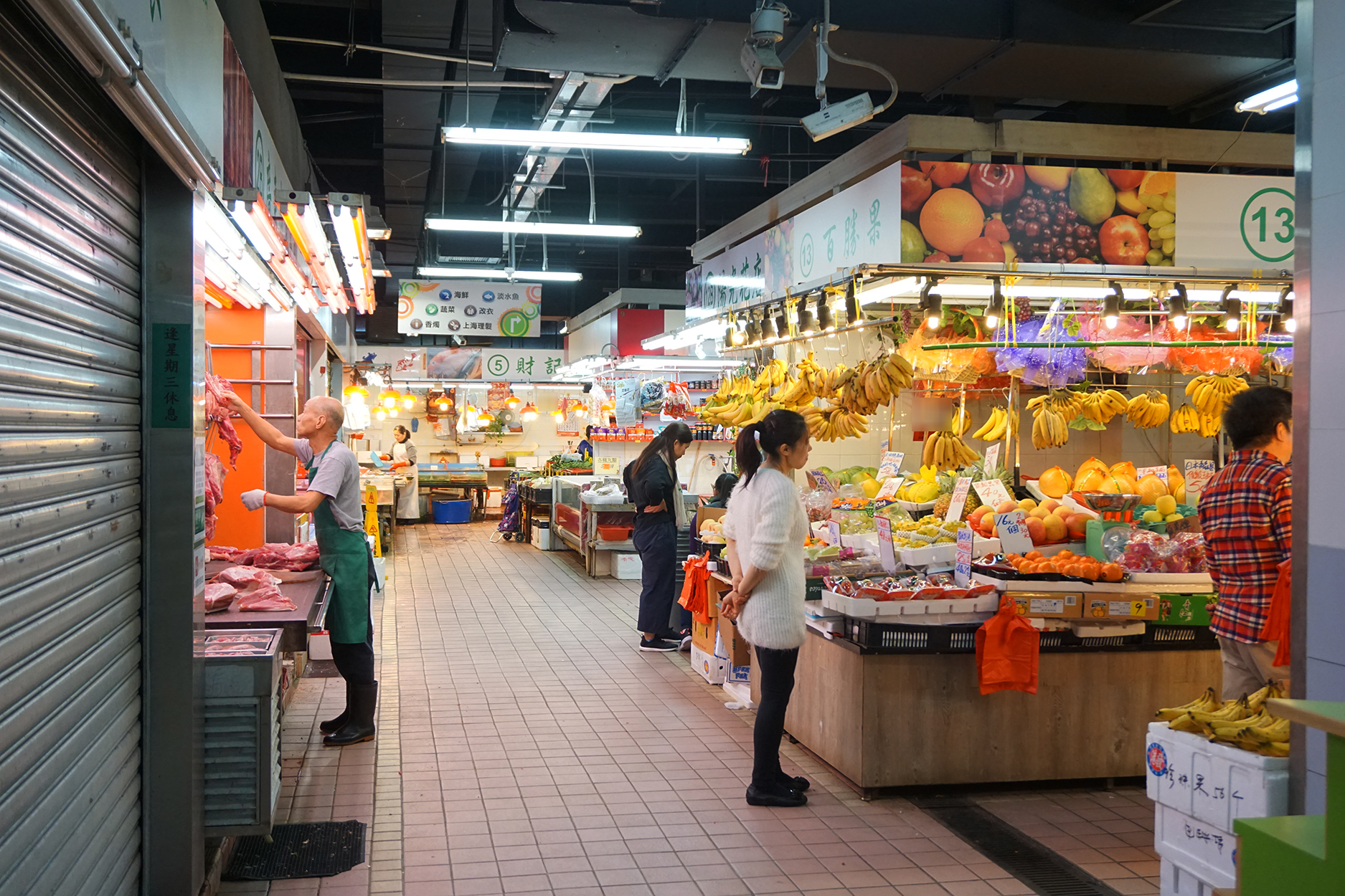 Fu Heng Market in Tai Po, Hong Kong.